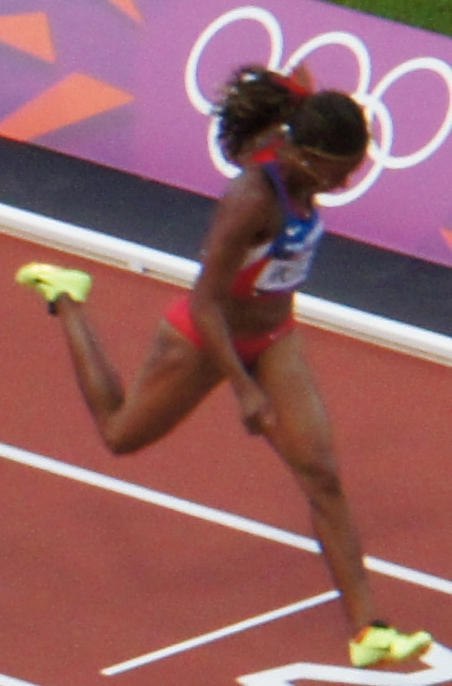 Yomara Hinestroza competing at the 2012 Summer Olympics